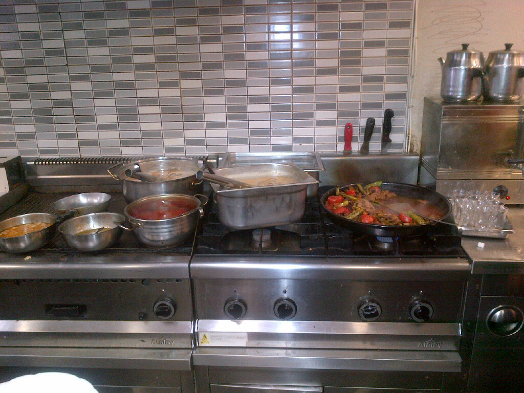 The kitchenette of a small "esnaf lokantası" in Ankara. Not only the dishes are visible to the clients but also they are cooked before them.